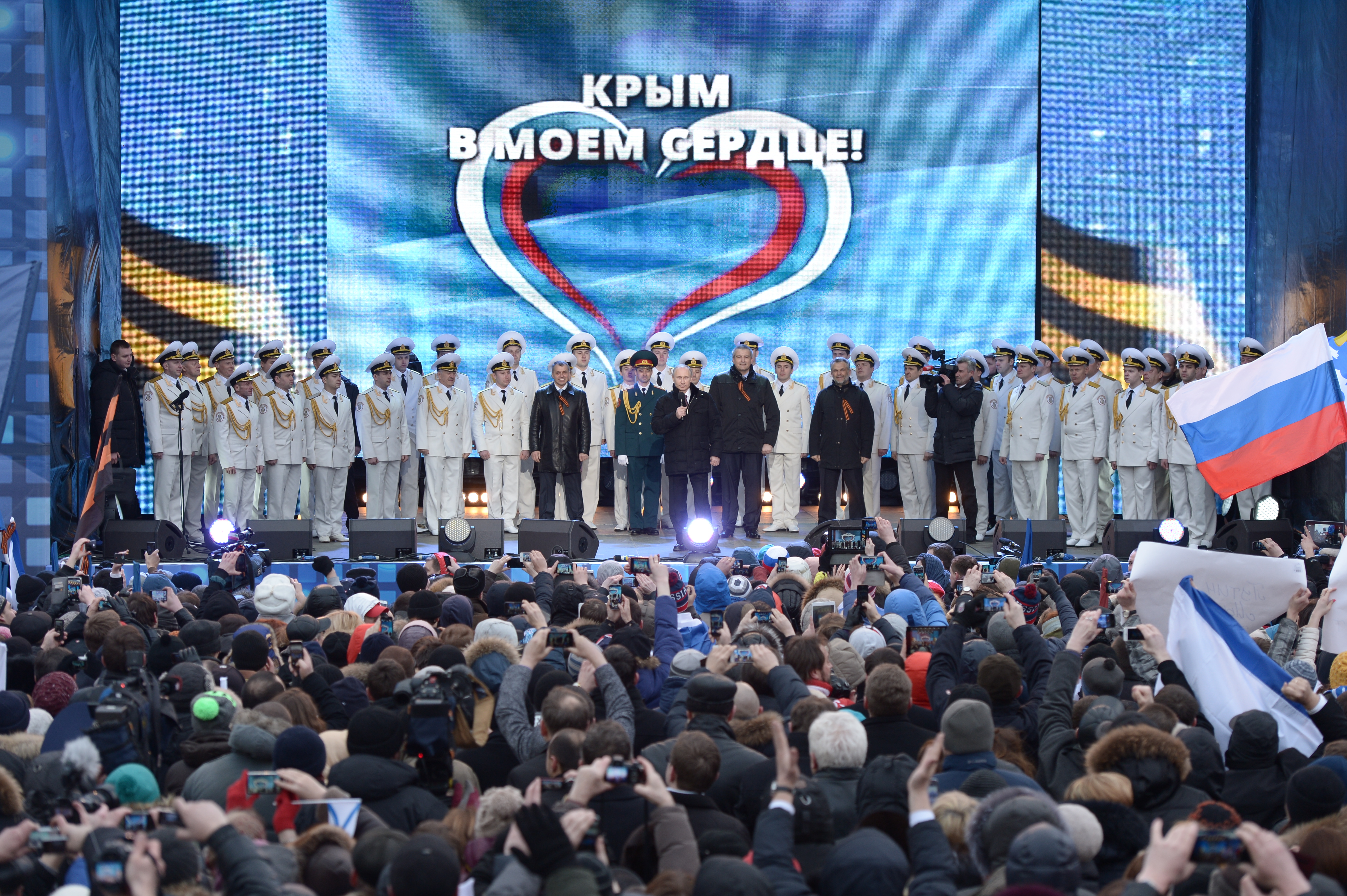 Rally in support the Accession of Crimea to Russia